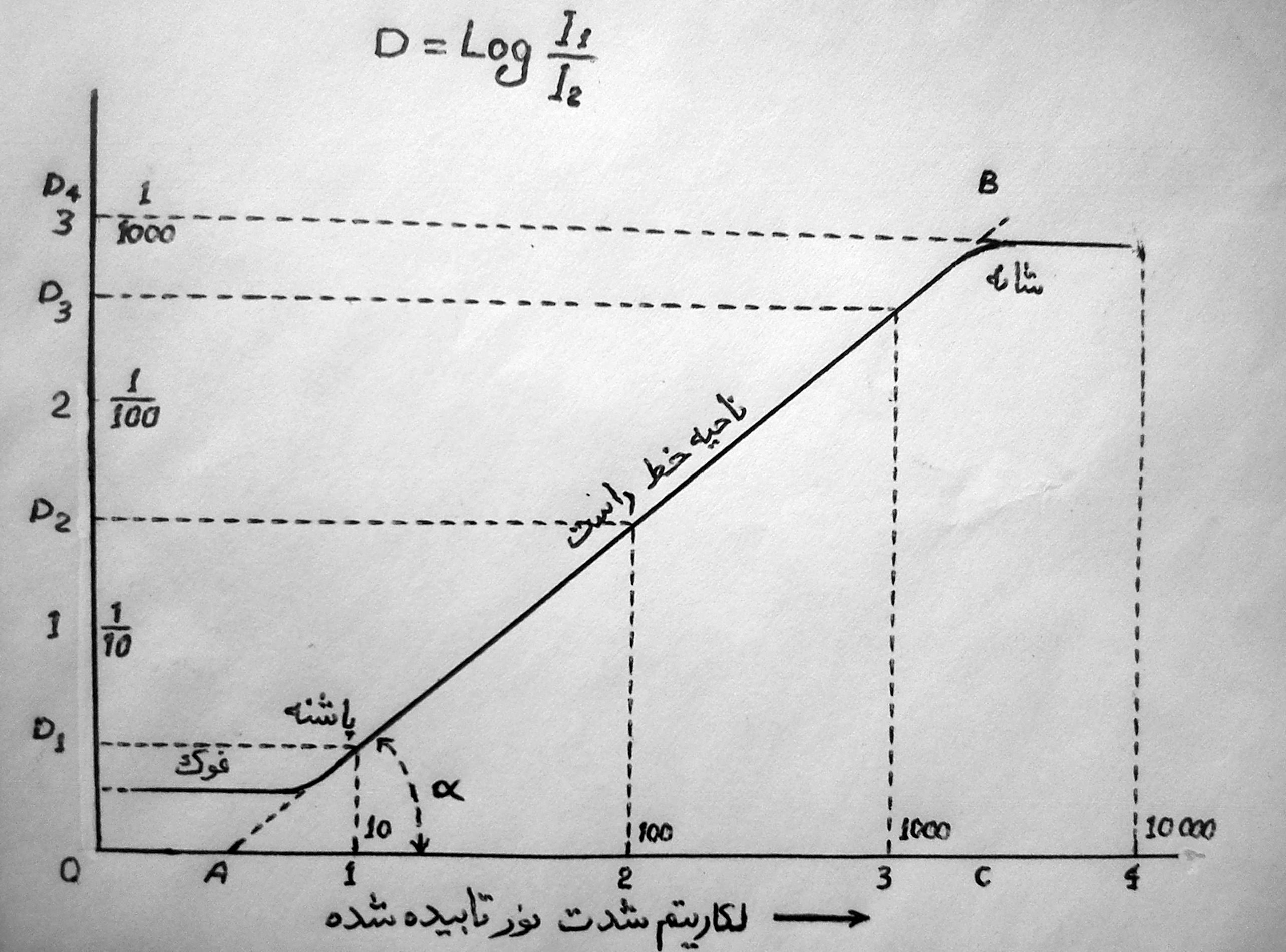 Sensitometry curve.